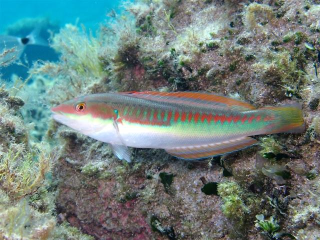 Coris julis, Minorca, Spain